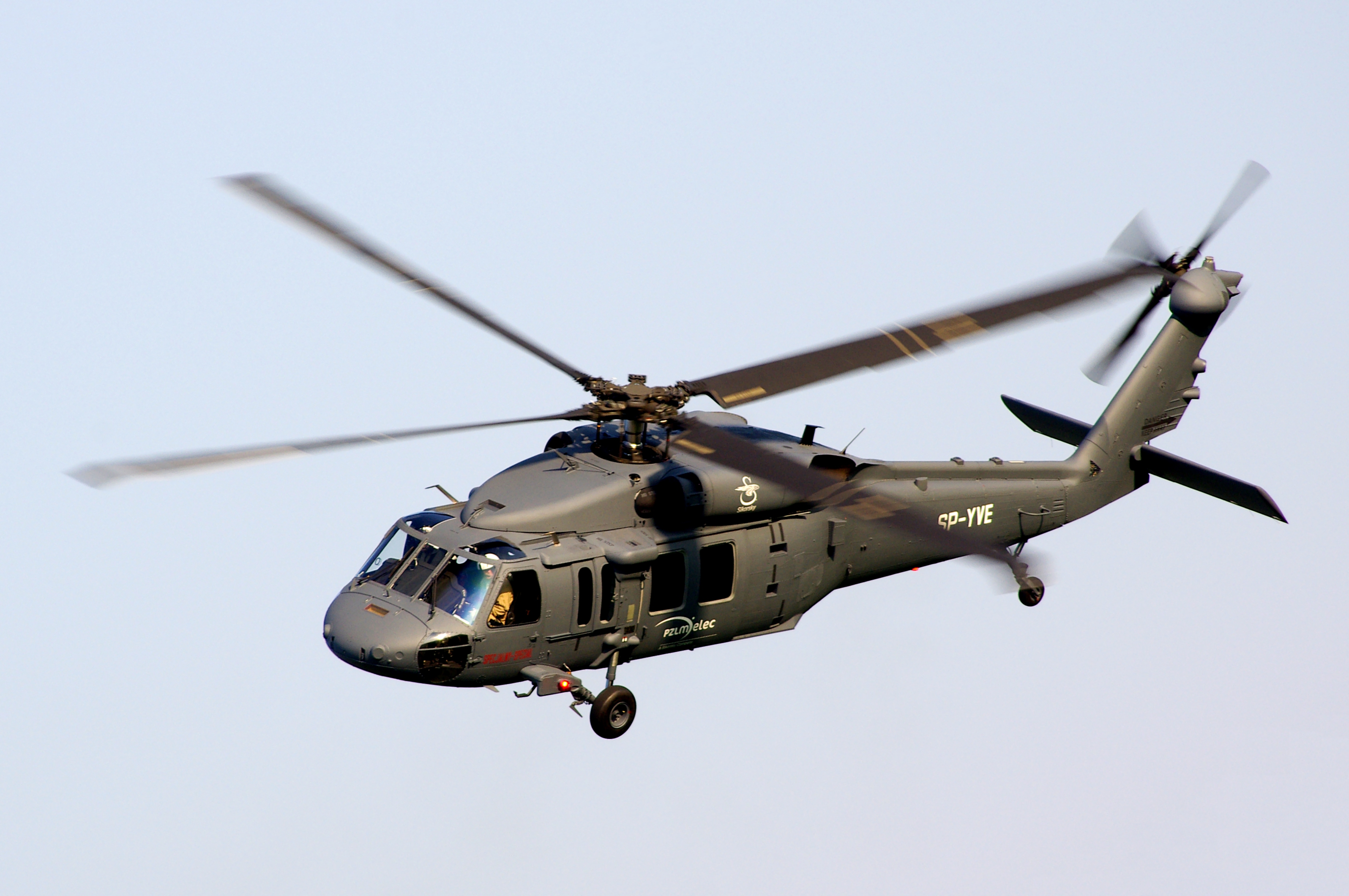 S-70i Black Hawk at Radom Air Show 2011